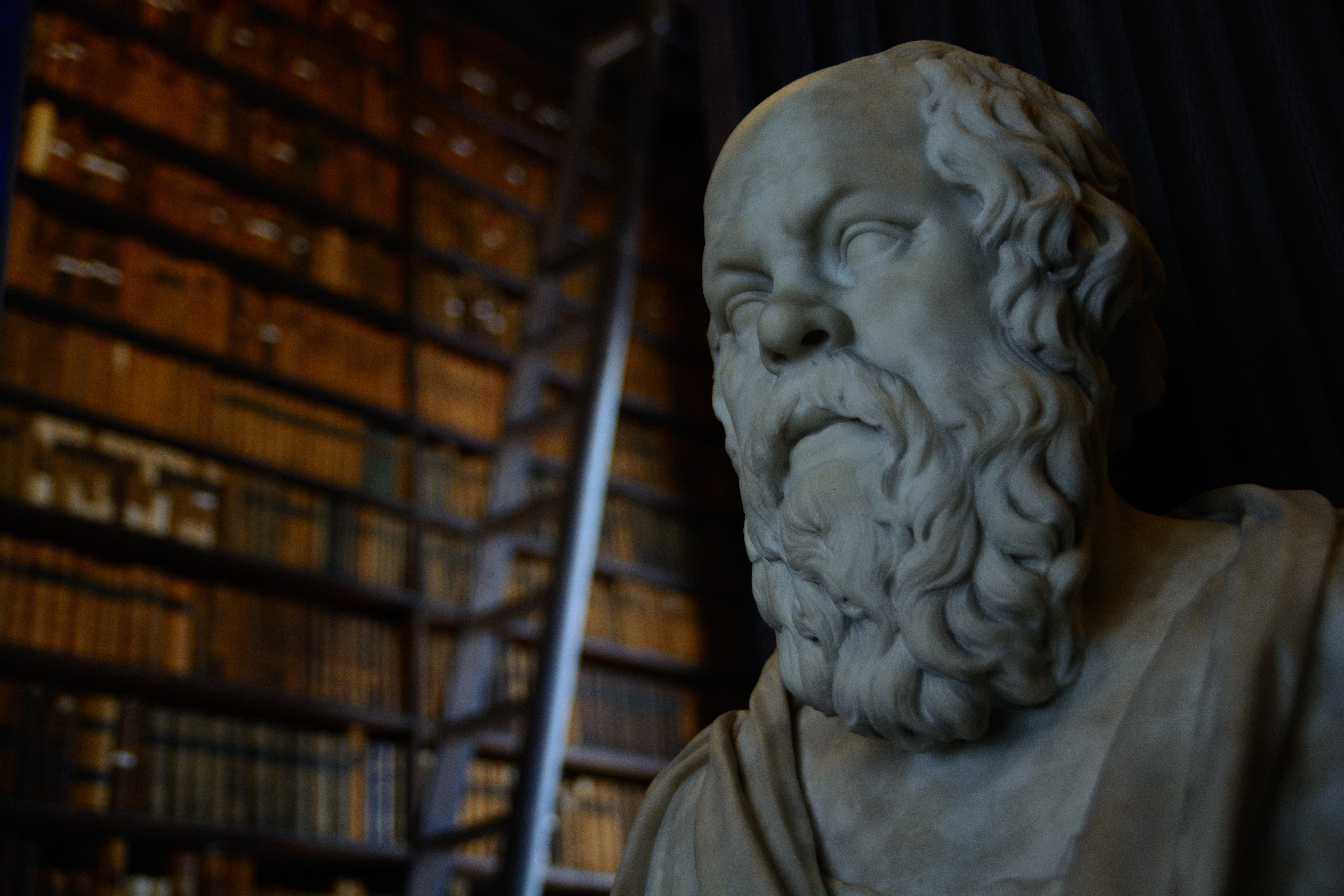 Statue of Socrates in Trinity College Library